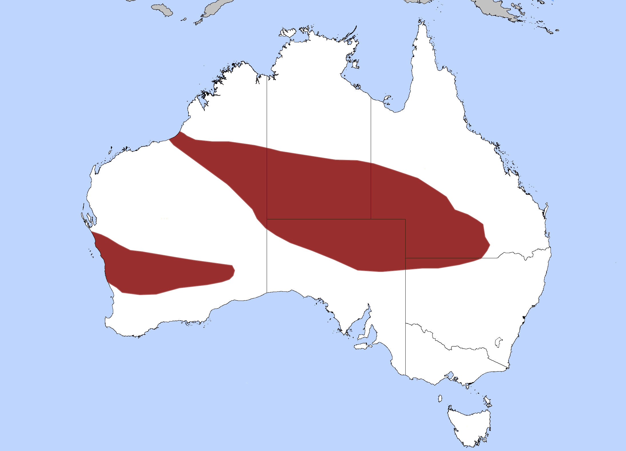 The Distribution of the Woma